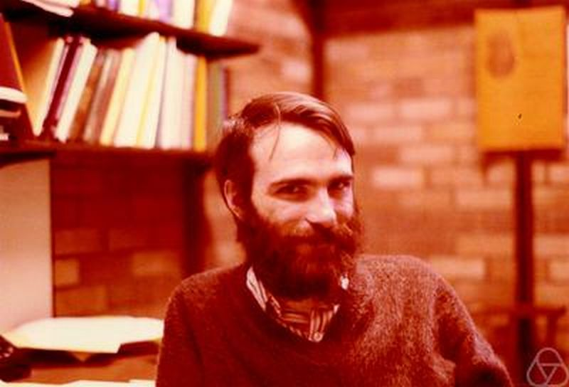 Douglas Ravenel, Seattle 1978